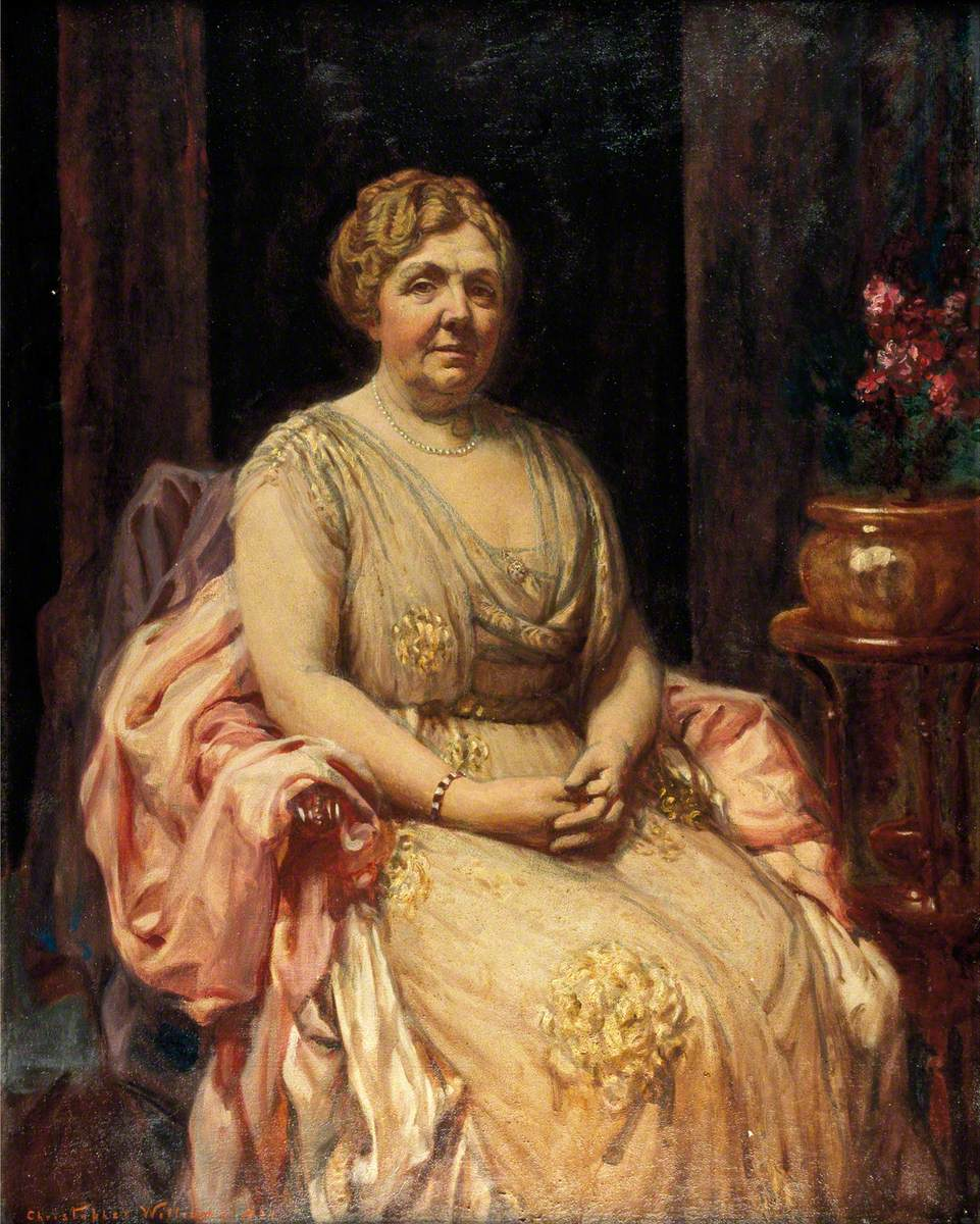 A painting from the Framed Works of Art collection at the National Library of wales.